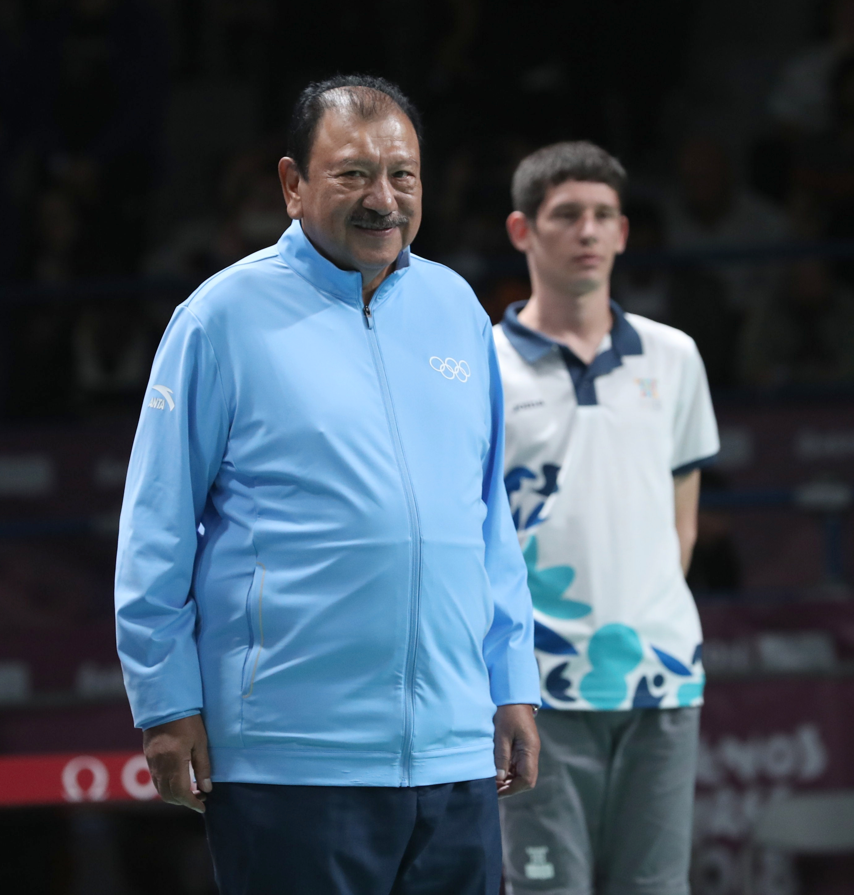 Victory ceremony at the Boys Singles Badminton competition